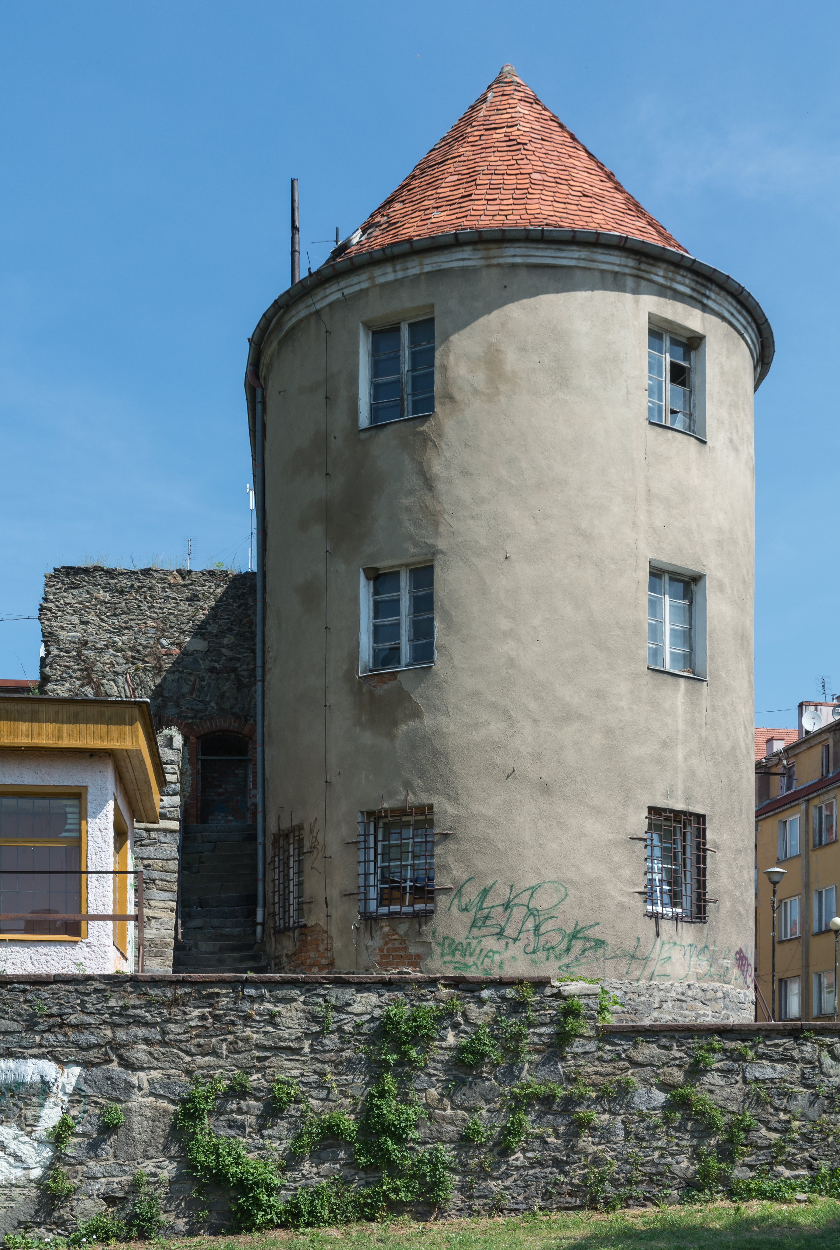 Tower of the Upper Gate in Niemcza